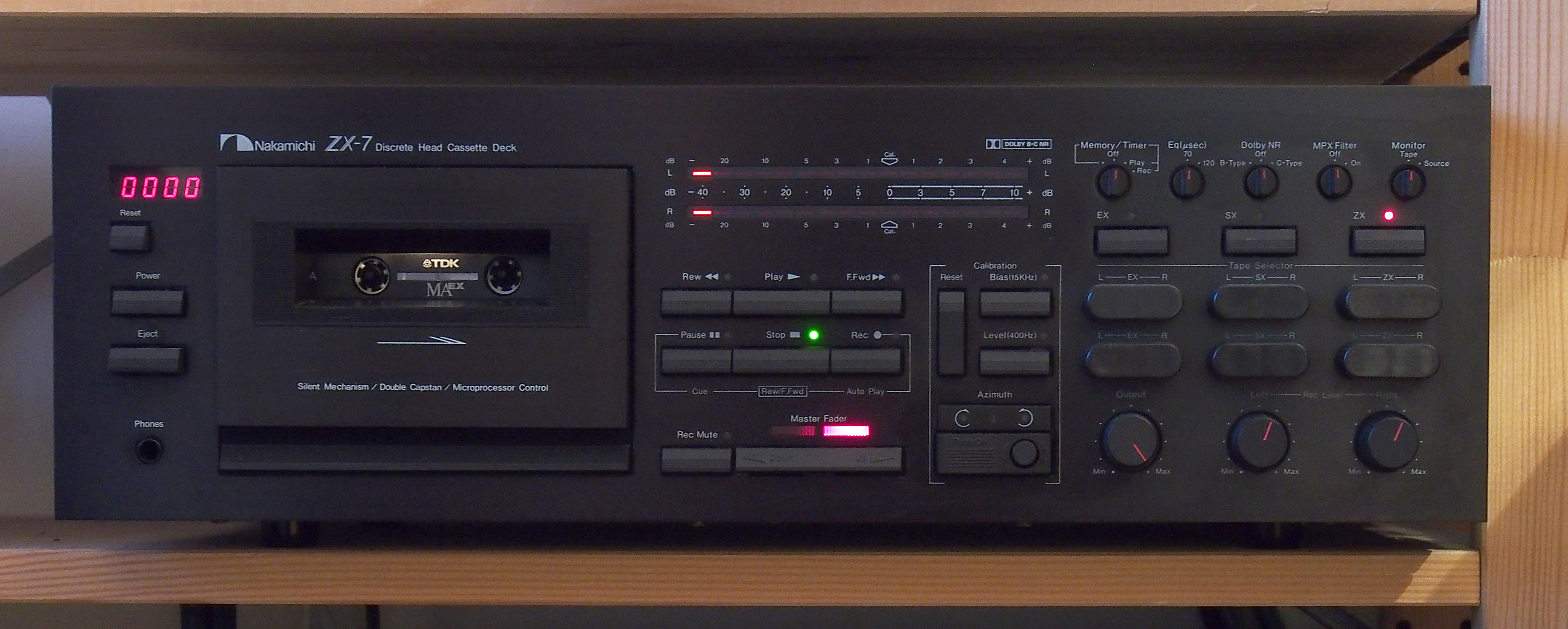 Nakamichi ZX-7 (1981-1984)